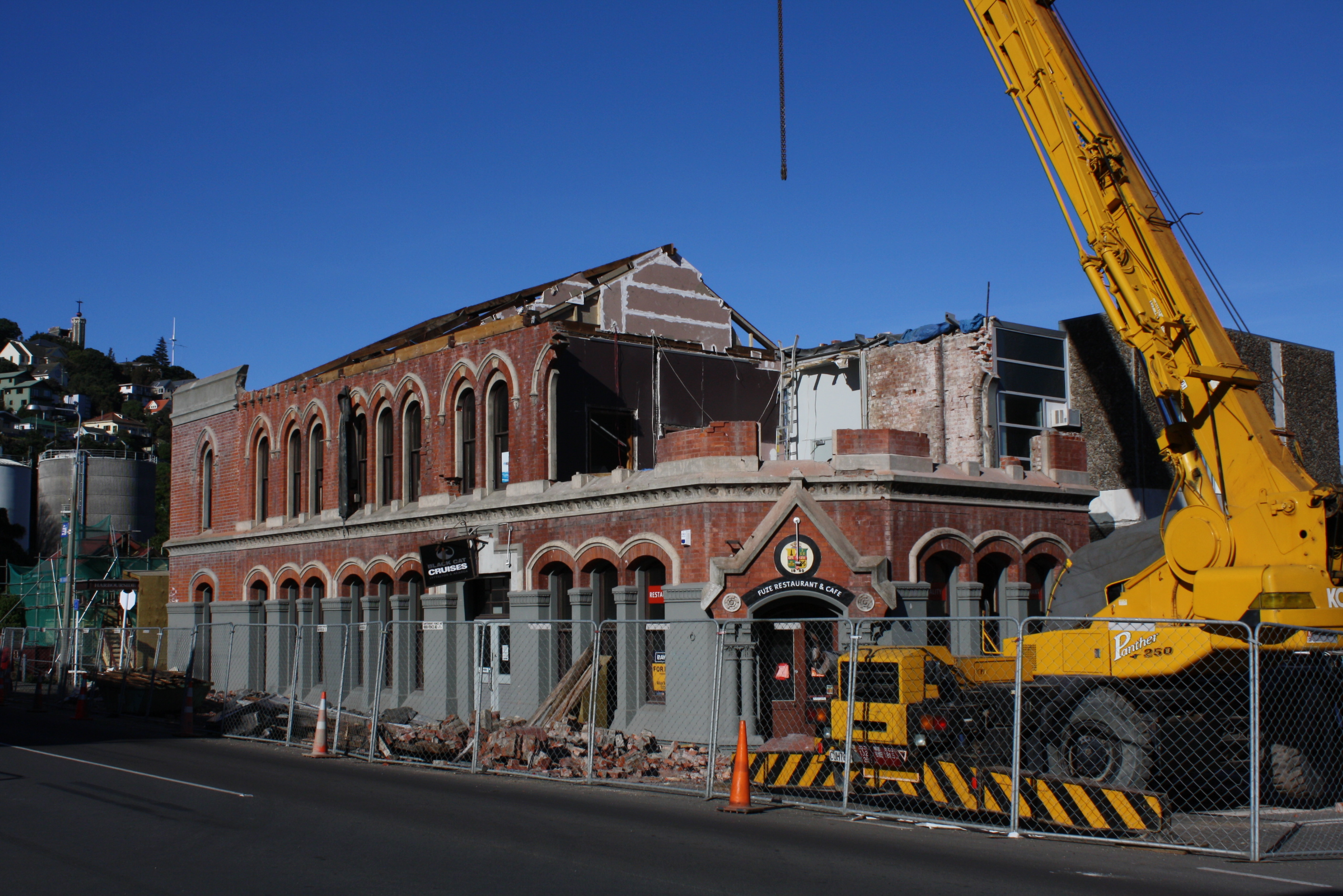 The Harbour Board Offices in Lyttelton with damage from the 22 February 2011 earthquake.